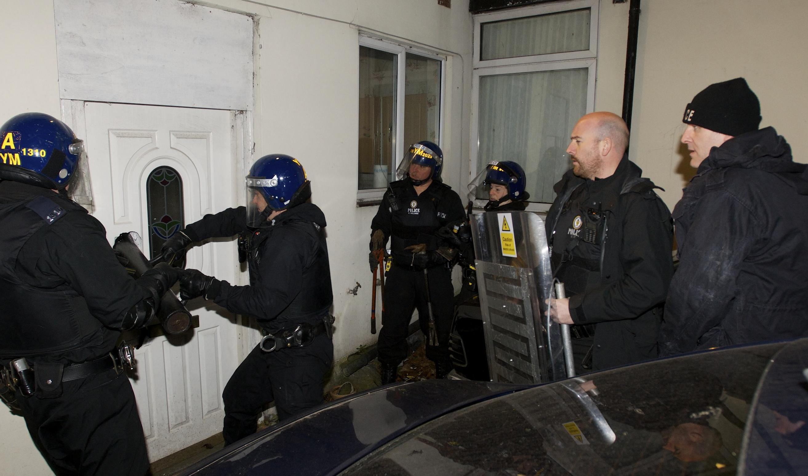 Officers arrest two men following an early morning drugs raid in Dudley earlier this week. TWO MEN were arrested following an early morning raid on their Dudley home yesterday (Thursday) where drugs and weapons were found. Around 20 officers executed a warrant at the address on Himley Road just after 6am today during a pre-planned operation. A 28-year-old man was arrested on suspicion of possessing and supplying a controlled drug, possessing a prohibited weapon, resisting arrest and a traffic offence. A 33-year-old man was arrested on suspicion of possession of a controlled drug and obstructing a police officer. Following a thorough search of the property throughout the morning, 20 to 30 wraps of what is believed to be a Class A drug were found as well as a thousands of pounds of cash and a number of weapons such as bats and snooker cues. Two dogs, a Bull Mastiff and a Rottweiler, were also found at the address and were believed to be suffering with malnutrition; officers contacted the RSPCA to deal with the dogs. Both men were subsequently also arrested on suspicion of cruelty to animals. They continue to be questioned by officers this afternoon.